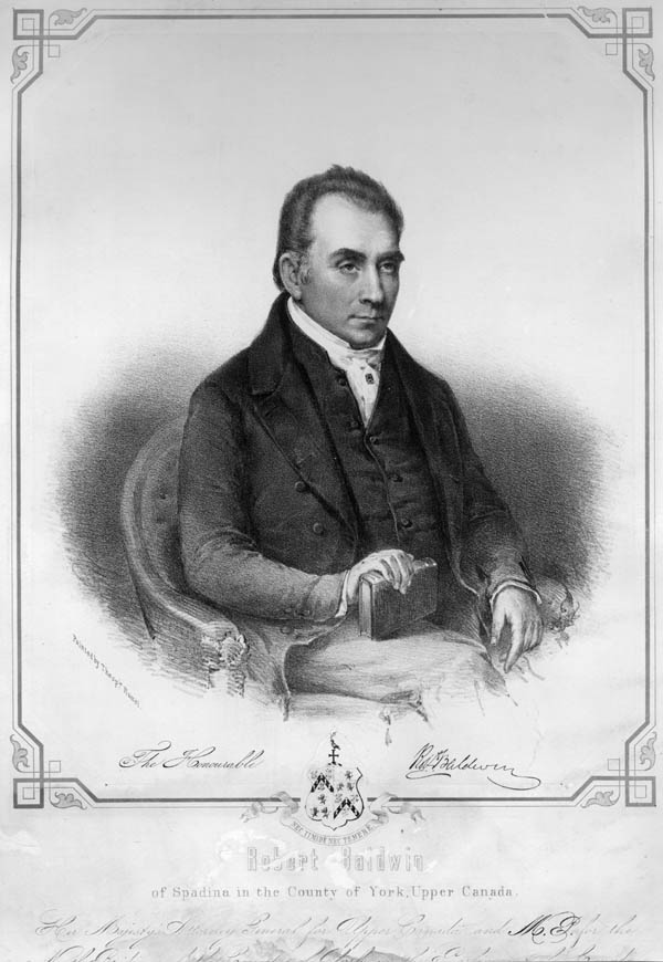 Title: The Honourable Robert Baldwin of Spadina in the County of York, Upper Canada